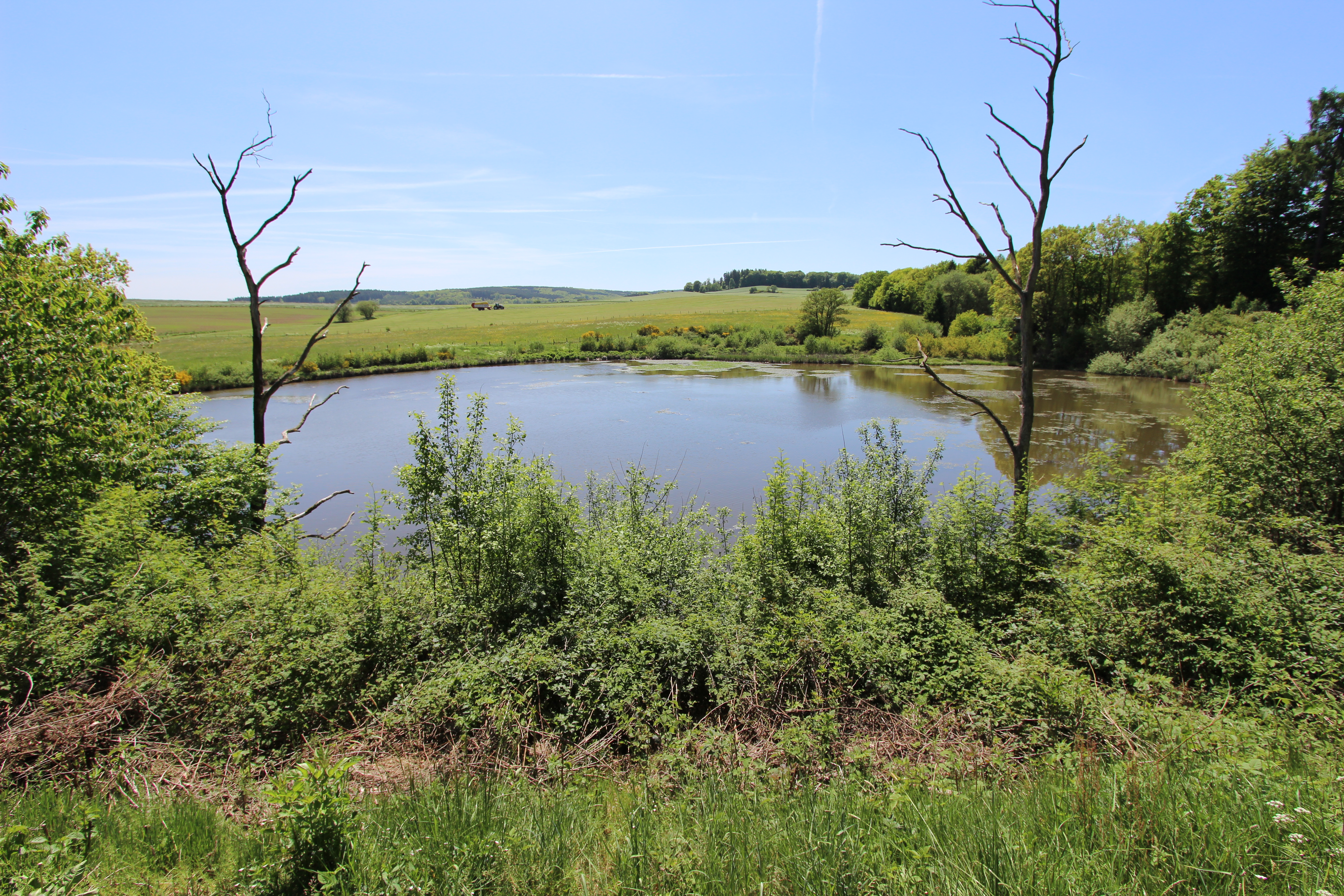 Eichholzmaar close to German village Steffeln, 2017. The maar is approximately 120 m across and has a depth of 3 m.